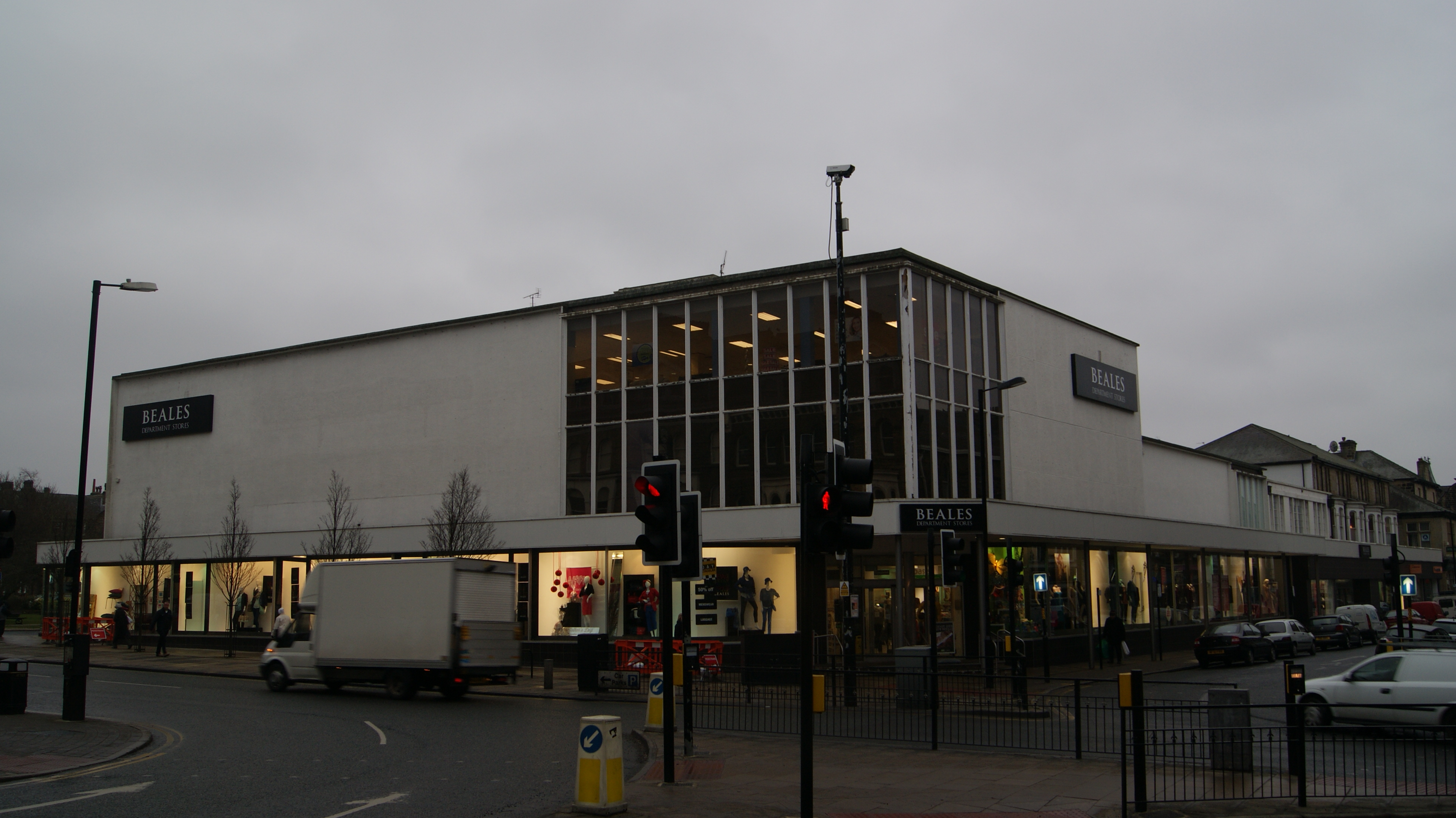 Beales Department Store, Station Parade, Harrogate, North Yorkshire. This was for a long time Sunwin House separtment store. Taken on the afternoon of Monday the 25th of February 2013.